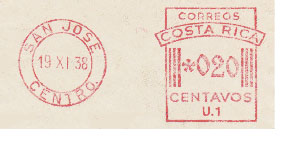 Meter stamp catalog image, Costa Rica type A0.1